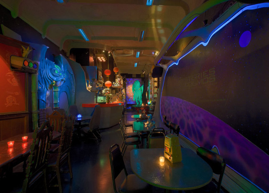 Sculptures and installations by Cary Lewis Long, photo by Joel Mark